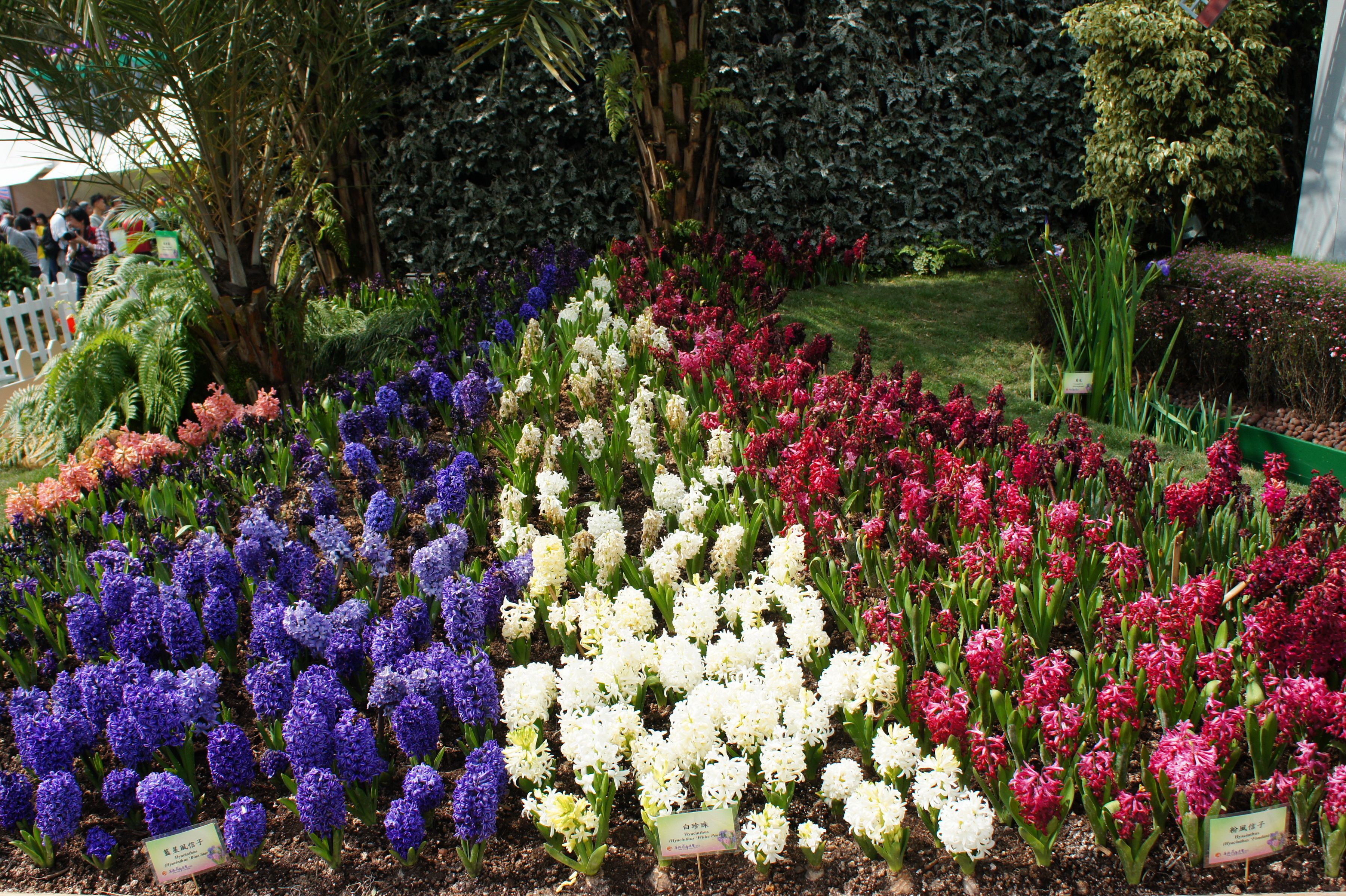 Hyacinth at the Hong Kong Flower Show 2012. Left to right: Hyacinthus 'Blue Star', Hyacinthus 'White Pearl', Hyacinthus 'Fondant'.